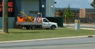 Ute with signs and equipment for Road Traffic Control